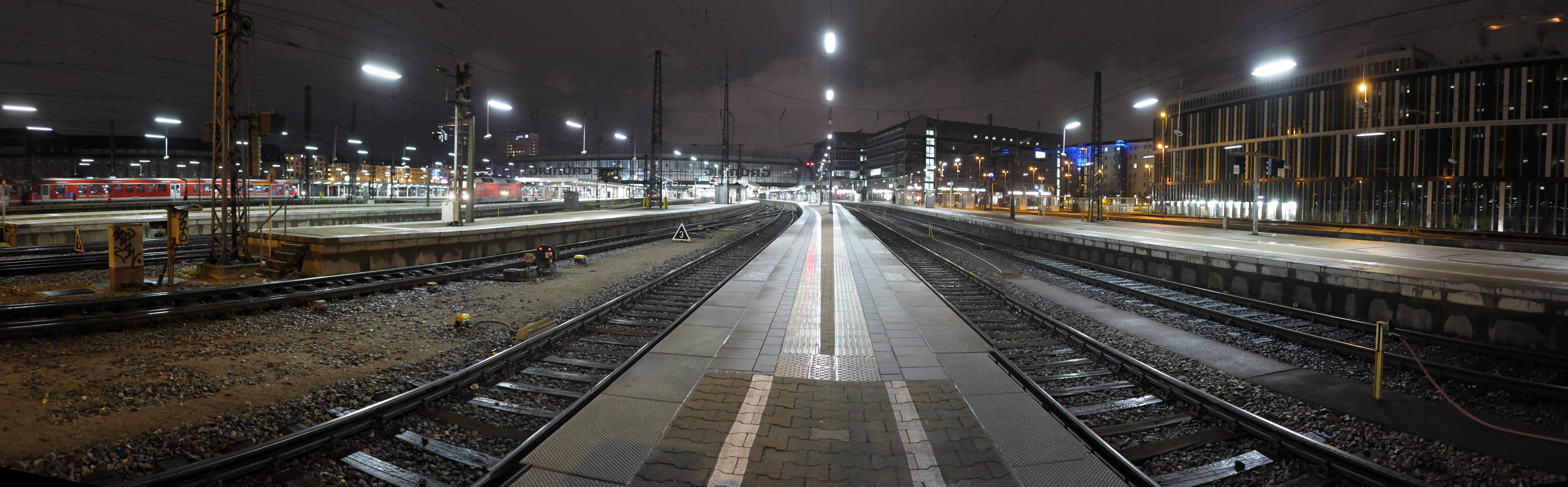 Germany, Bavaria, Munich, Central Station by Night, Track 12 and 13